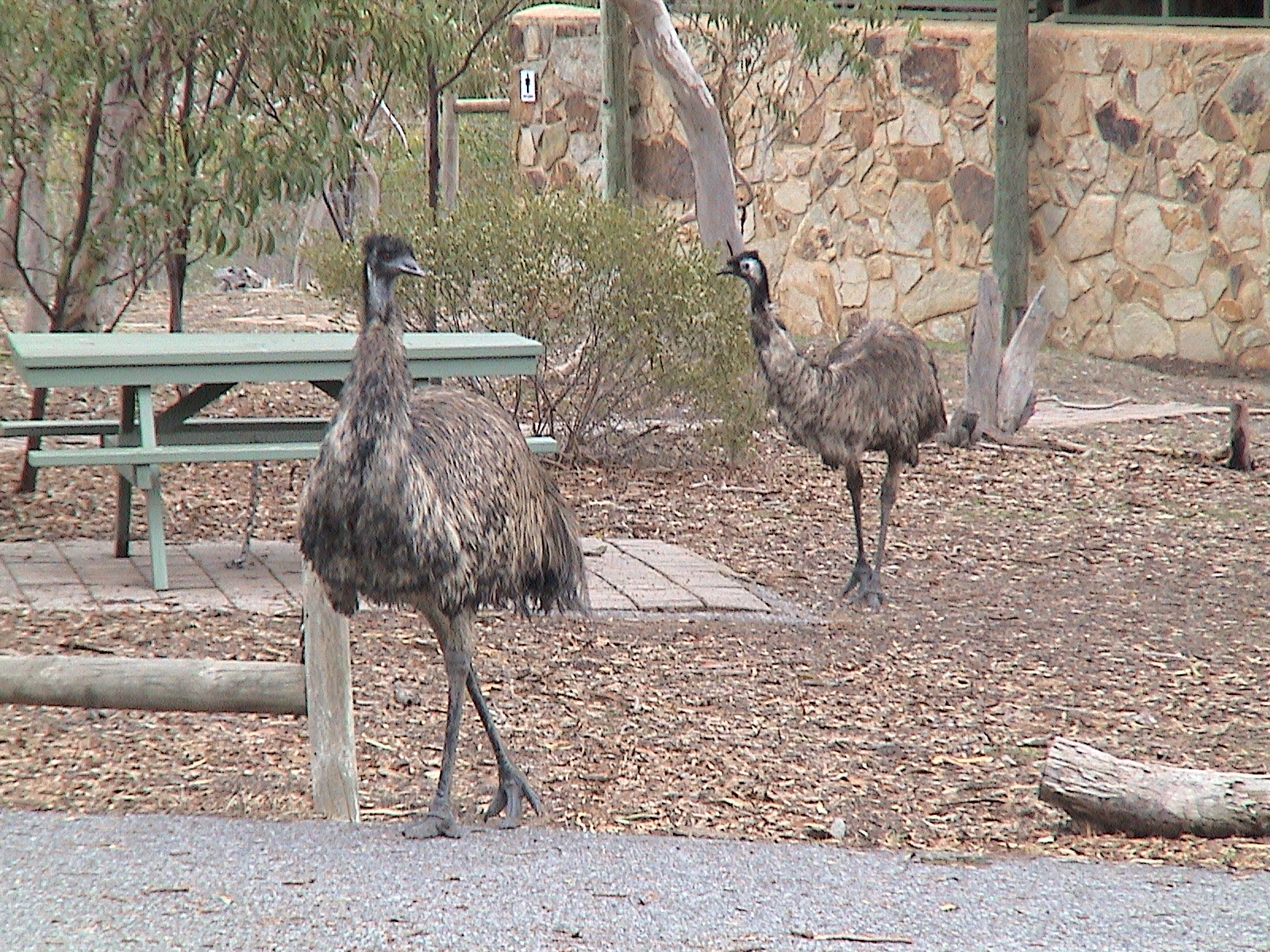 Emus at Parra Wirra Recreation Park, 14 May 2012